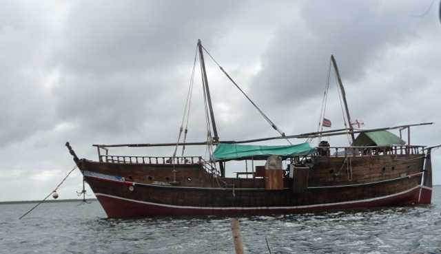 Jahazi off Lamu coast